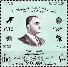 United Arab Republic presidential confirmation referendum, 1965 The election took the form of a referendum on the candidacy of Gamal Abdel Nasser, who ran unopposed. He won with almost seven million votes, and only 65 against. Voter turnout was 98.5%